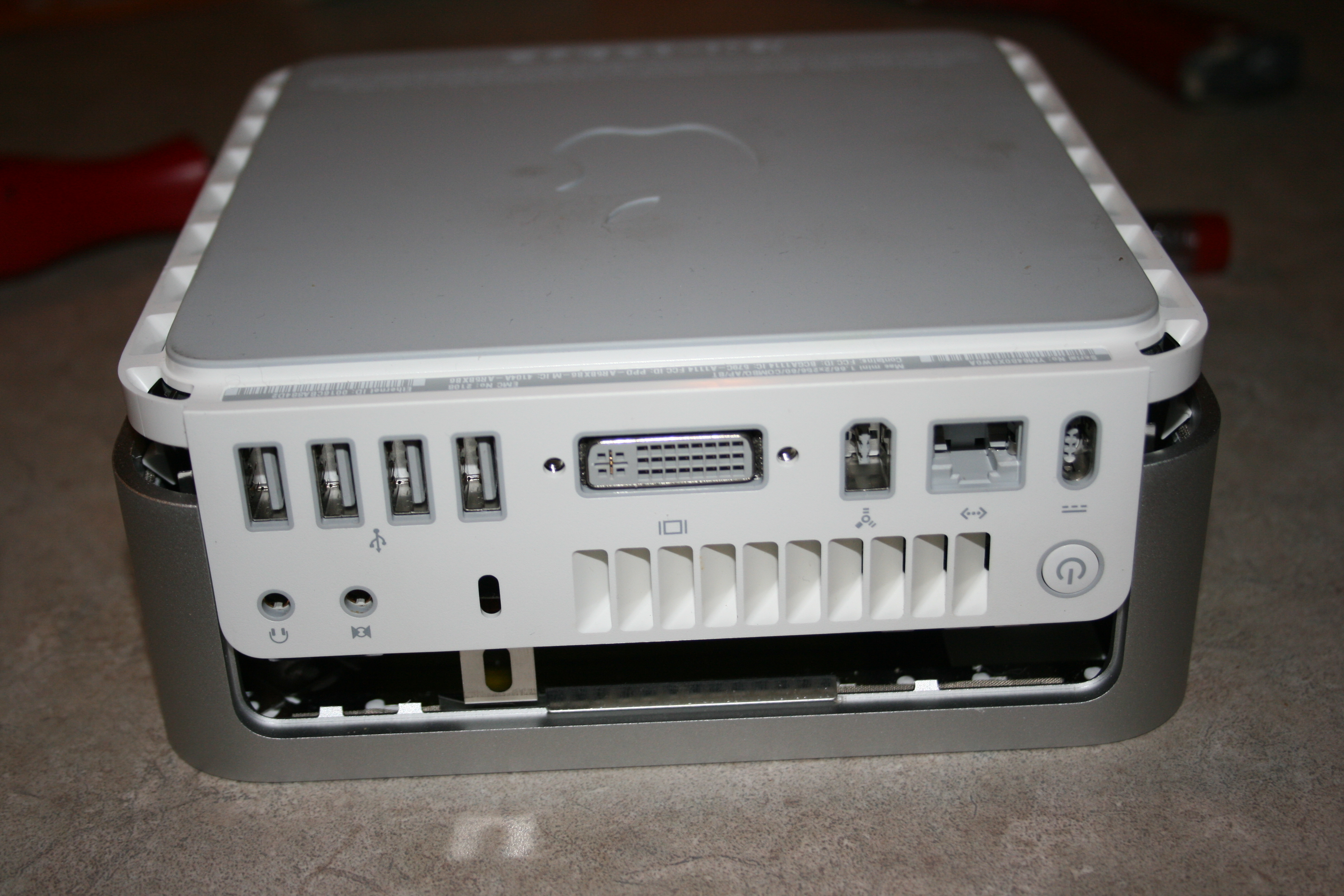 aluminium case of a Mac mini separated of its base